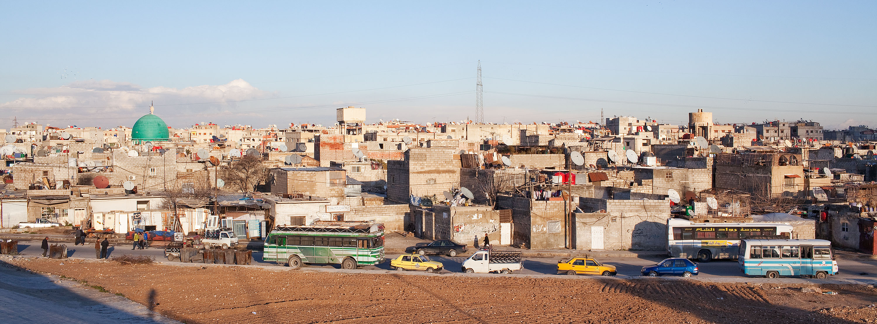 Skyline of Jaramana Refugee Camp outside Damascus, Syria. Taken 2009. Uploaded per request at WP:IFU.